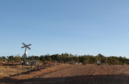 The ruins of the old Mungana township near Chillagoe, north Queensland, Australia